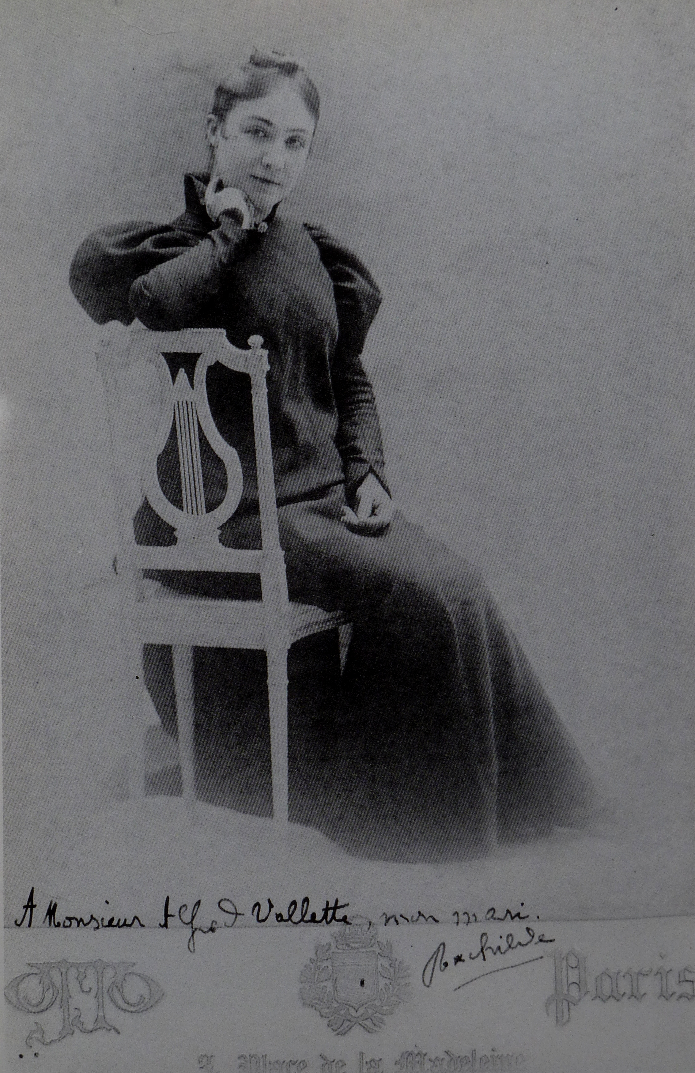 Rachilde (Marguerite Eymery) (1860-1953), photographie par Otto Wegener, Paris, vers 1885 - Carton format cabinet.